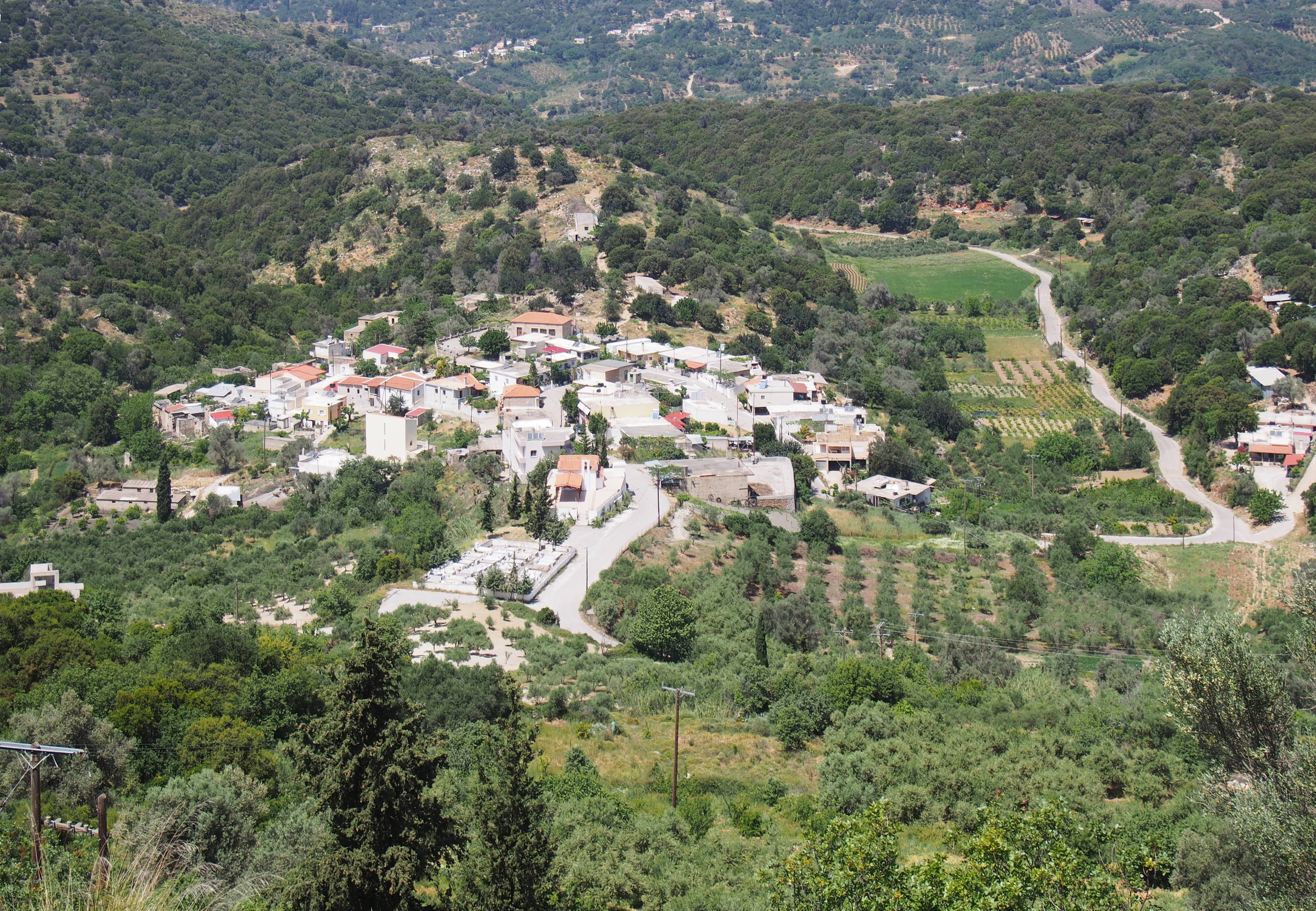 View of Agridia village, Mylopotamos mucipality, Crete, as seen from Chalepa monastery.